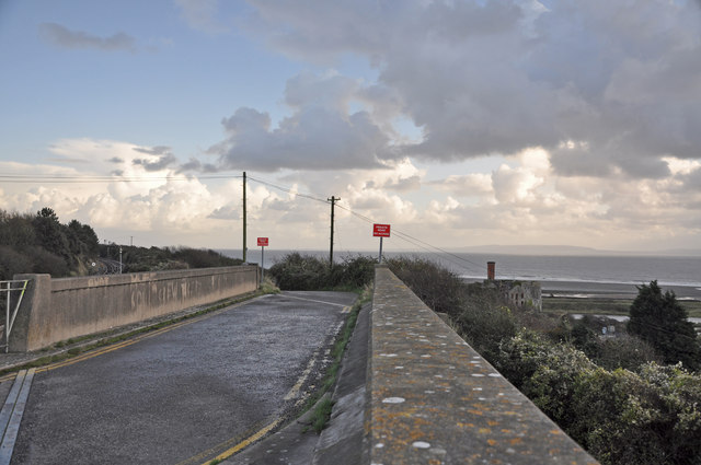 Lane to the coast - At East Aberthaw, an arched bridge spans the adjacent Vale of Glamorgan Railway line leading to a lane affording access only for vehicular traffic to a property below here or for Network Rail maintenance vehicles. It also affords pedestrian access to the now-listed Aberthaw Pebble Limeworks seen beyond to the right, the Wales Heritage Coastal Path and Pleasant Harbour nature area and beach. Across the Bristol Channel, to the right, lies Watchet and Minehead on the coast of Somerset with Devon and the Quantocks to the west. This bridge photographed is a reinforced concrete structured annex to the original arched bridge over the up & down main line. Teed from the main road between Rhoose and East Aberthaw, this annex originally spanned a 2-track lead to three reception sidings for rail coal traffic to Aberthaw power station(s) by 1958 but since 1981 only one track passes below. Situated at 4miles-68chains from Barry Junction to the east, Network Rail lists this as "Miner's Bridge". No further power station coal traffic was to pass under here after the last delivery in August 2019.